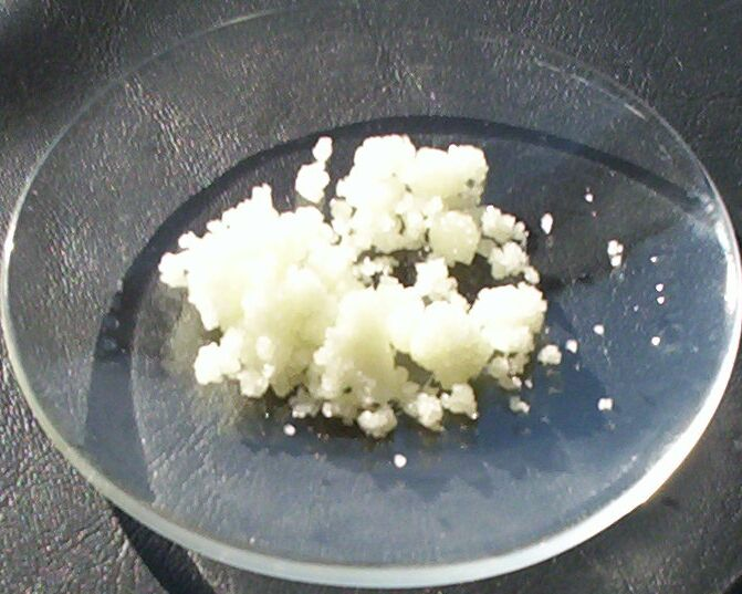 A sample of dysprosium(III) chloride hexahydrate. Picture taken by User:Walkerma, March 2006.